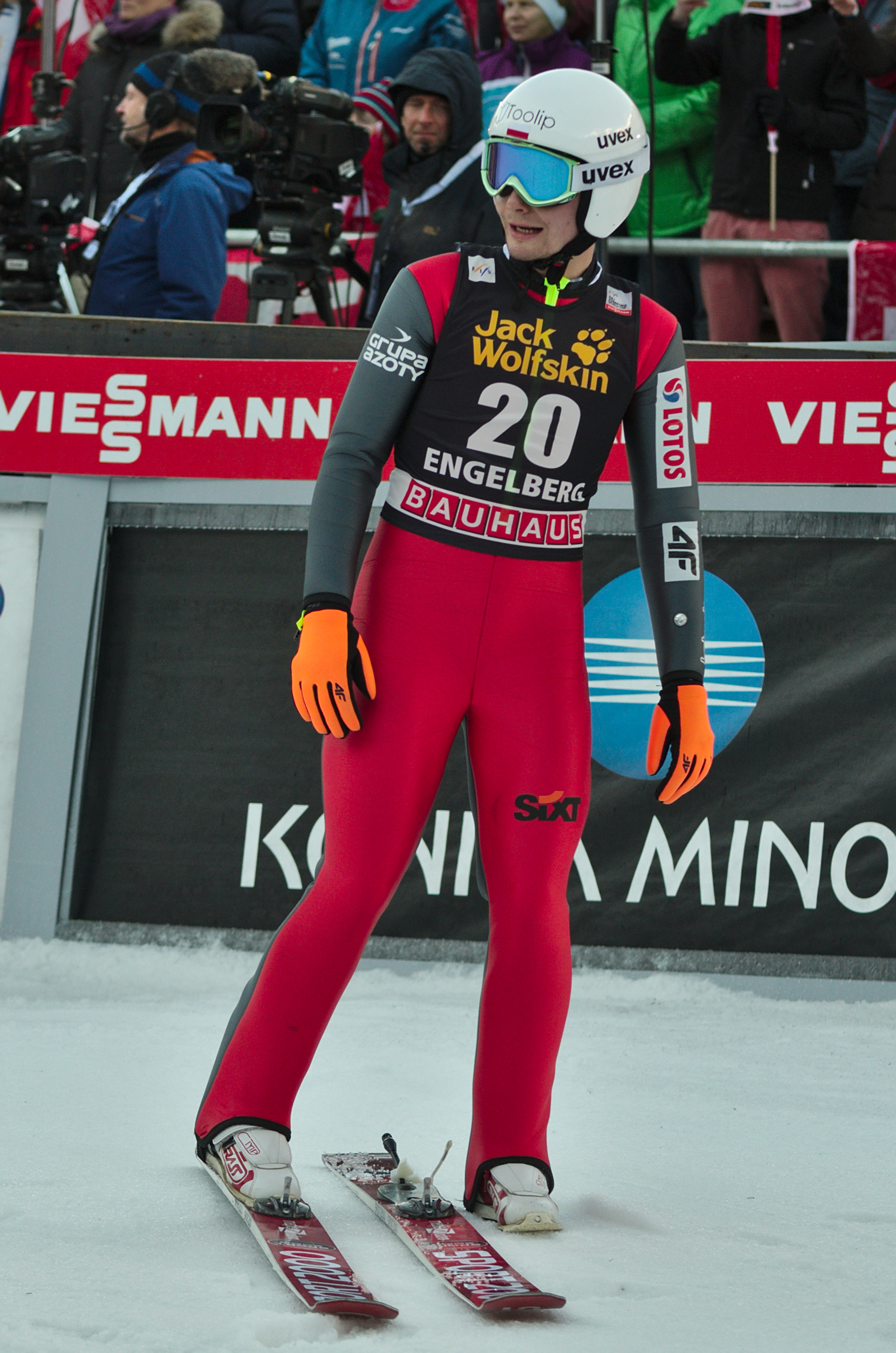 FIS Ski Jumping World Cup 2014 - Engelberg - 20141220 - Jan Ziobro